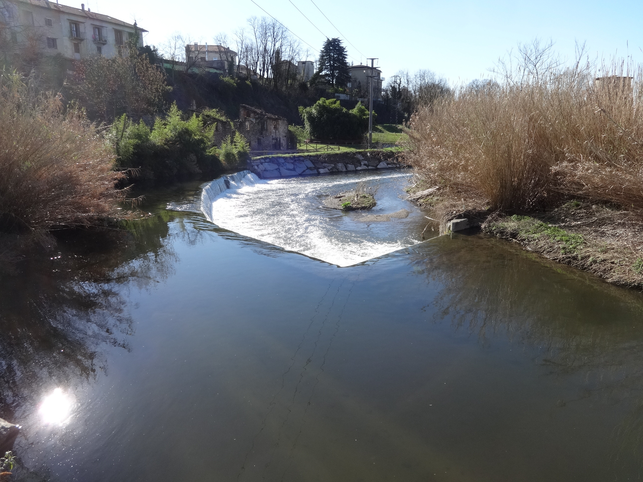 River Olona in Marnate VA